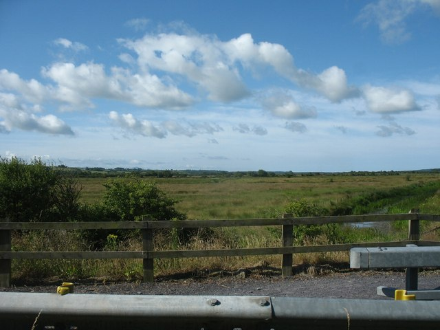 Cors Ddyga/Malltraeth Marsh from the A5